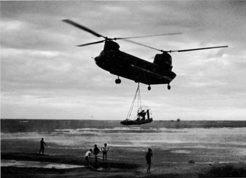 A CH-47 Chinook airlifting a Mike Force Hurricane Aircat airboat from Don Phuc to the Seven Mountains.